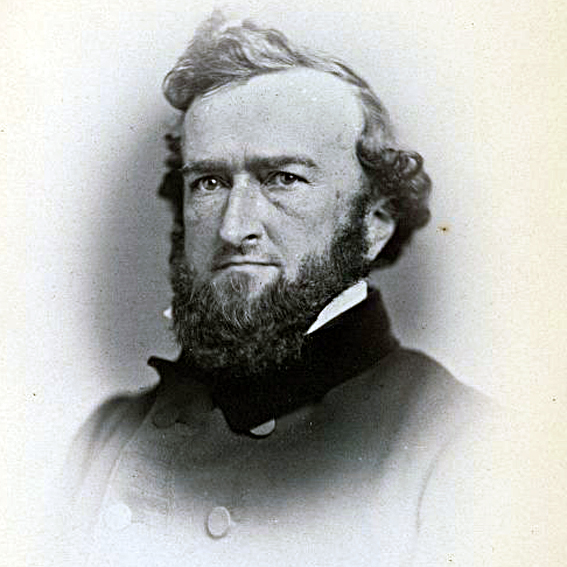 Owen Jones, US Representative from Pennsylvania